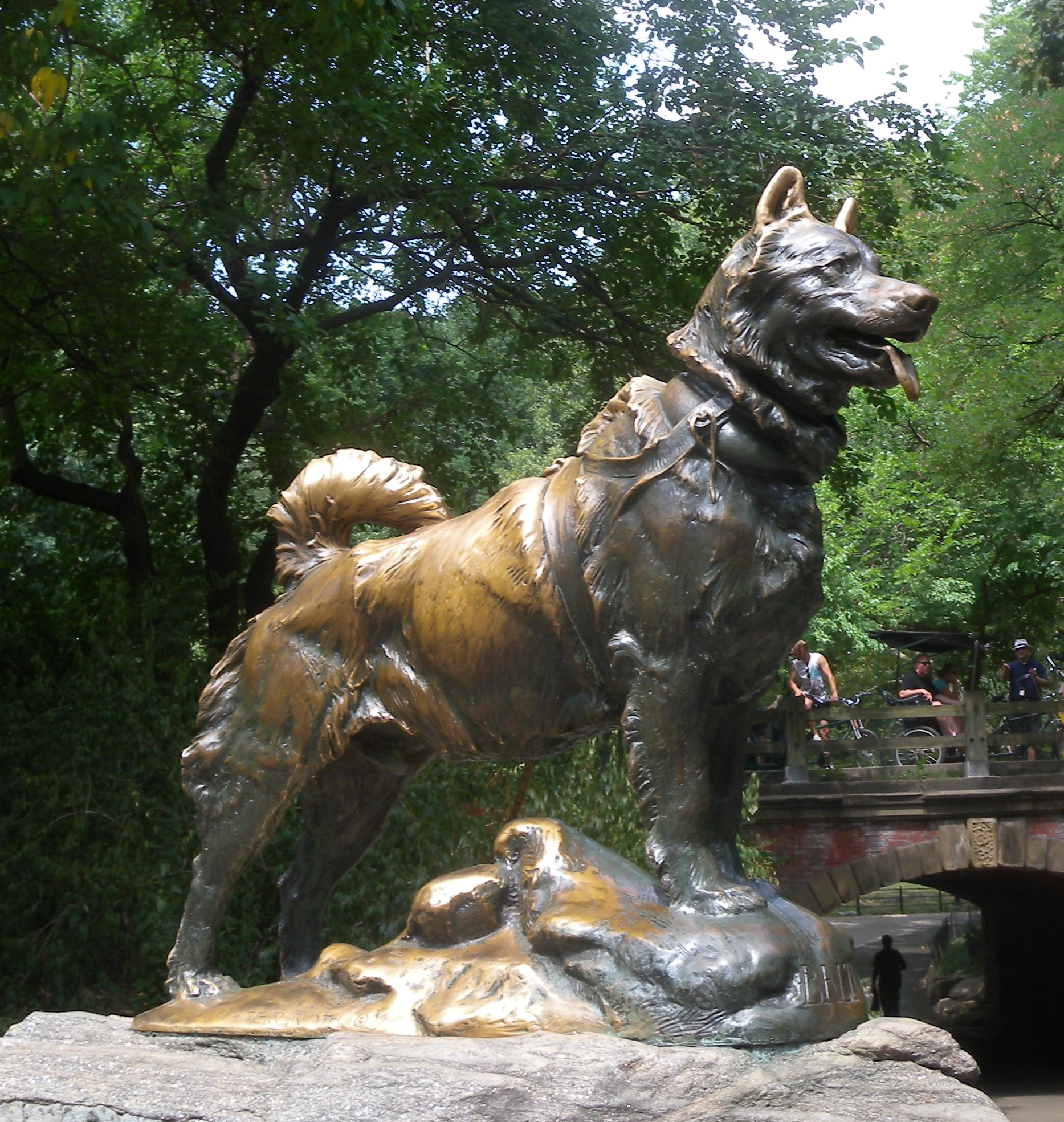 Looking west at Balto on a hazy late morning.